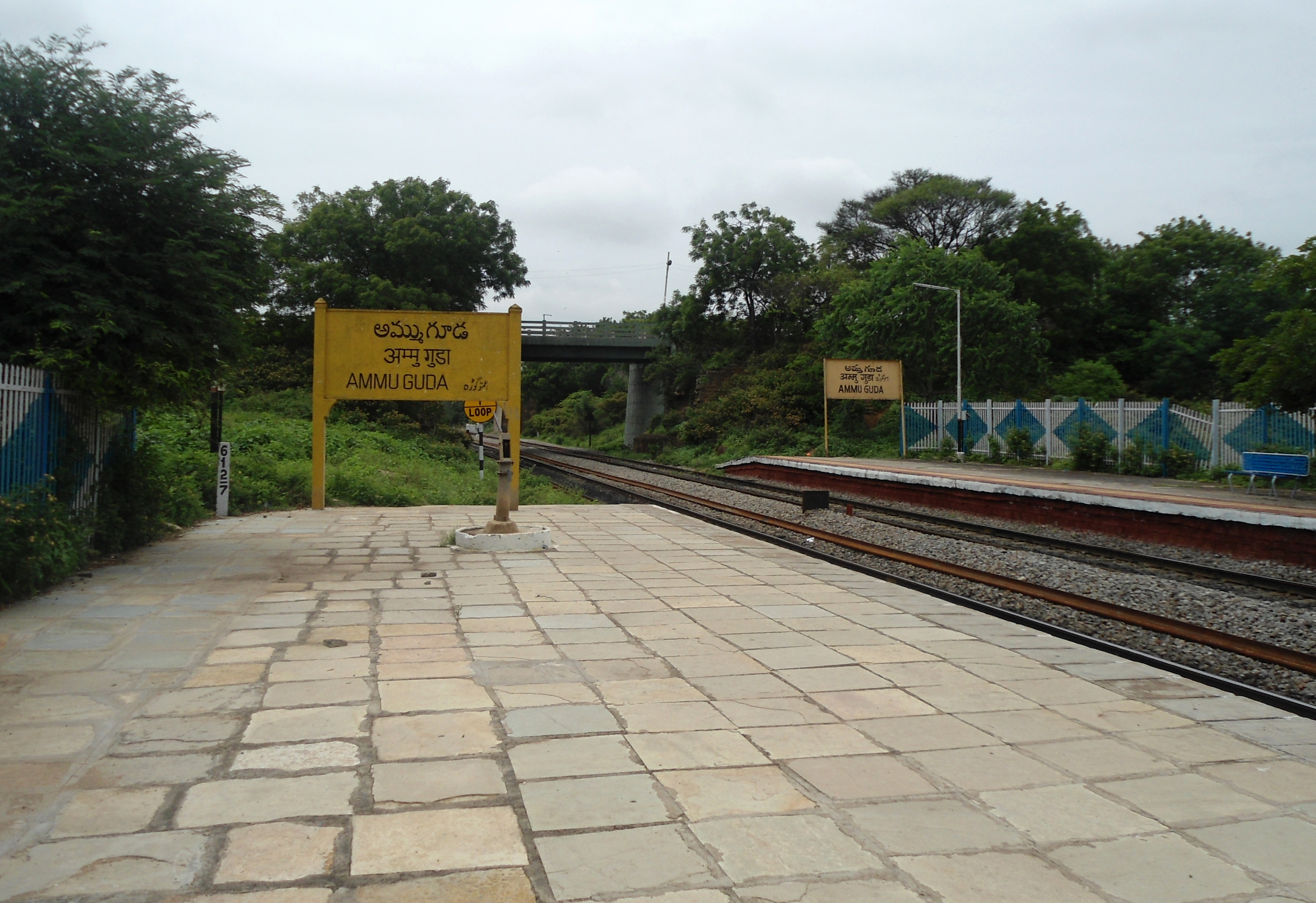 Ammuguda railway station view, Hyderabad